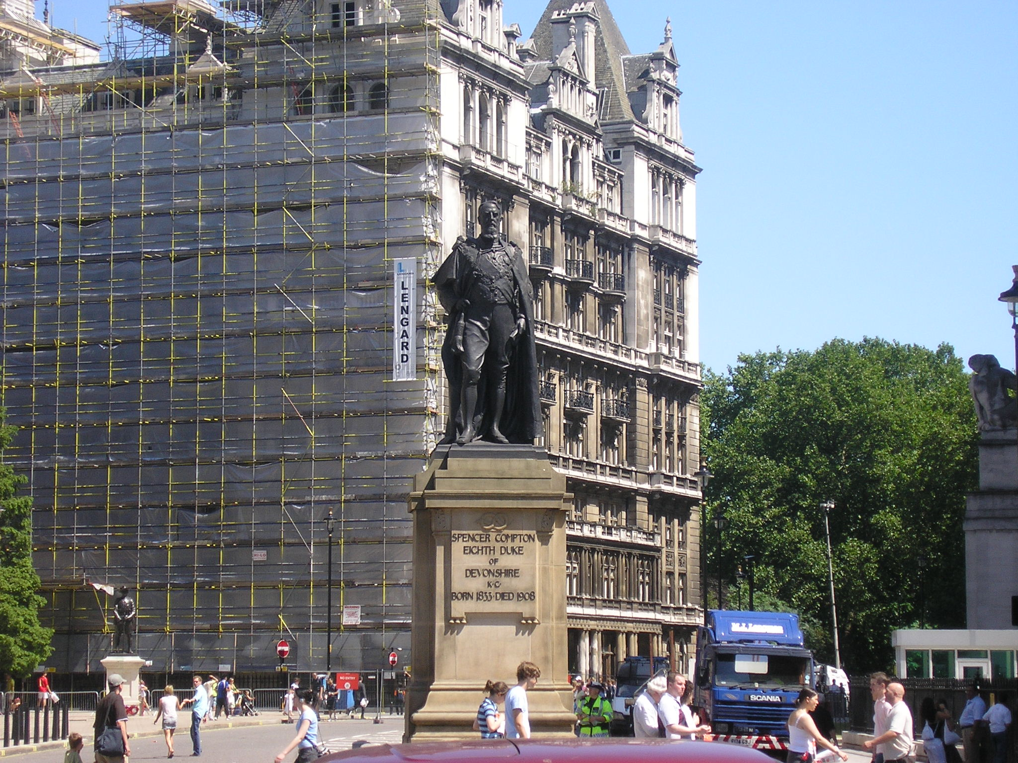 Statue of the 8th Duke of Devonshire in Whitehall, London.